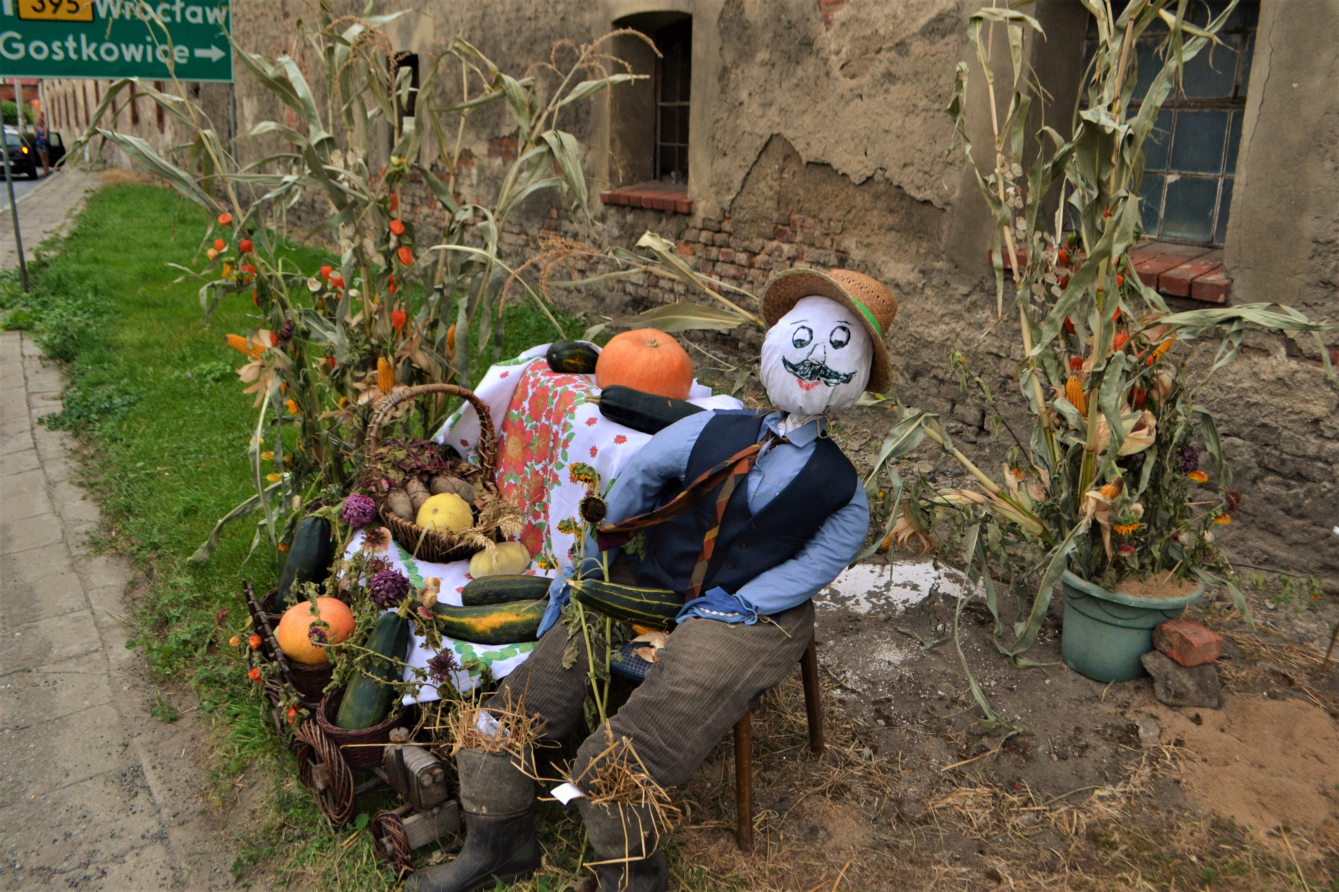 Effigy used during Dożynki festival near Wroclaw